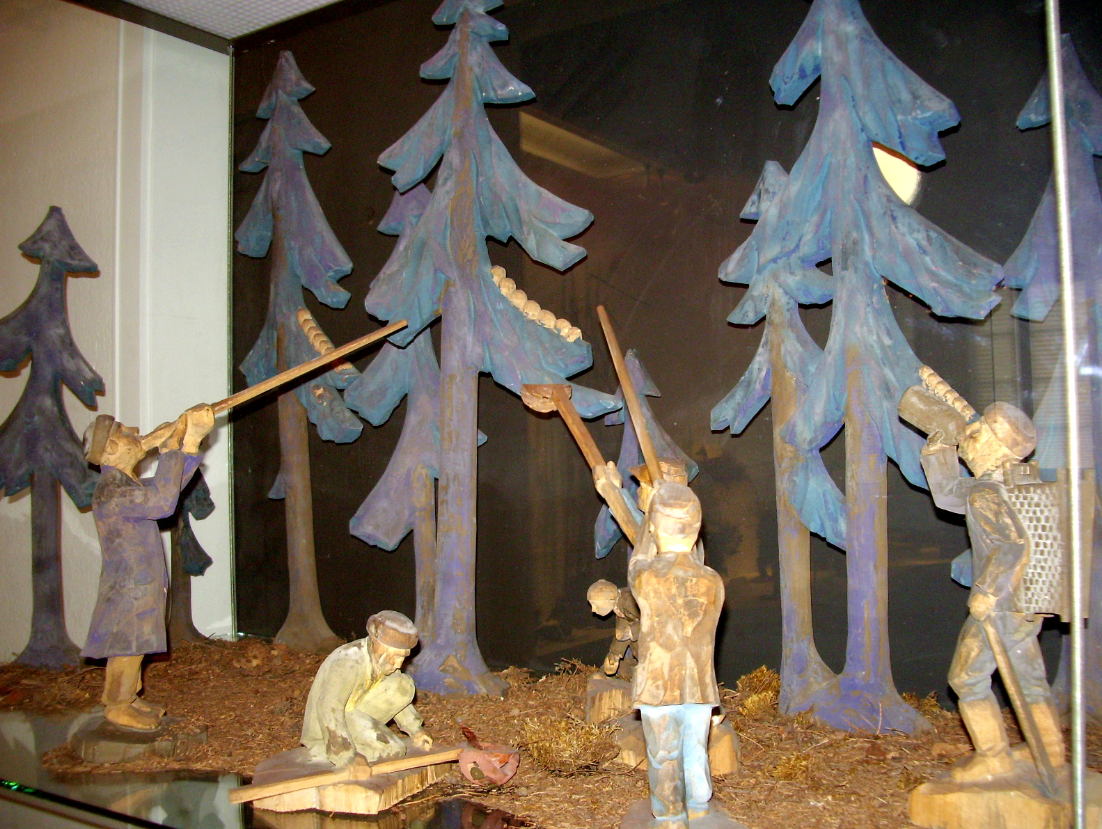 Brambling hunting scene in the 19th century - photgraph taken at the "Pfalzmuseum für Naturkunde – Pollichia-Museum" (Bad Dürkheim, GERMANY)